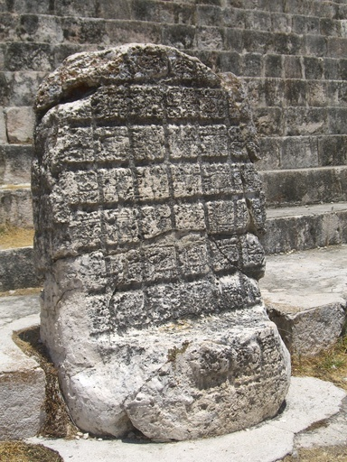 Stela with hieroglyphic inscriptions at Uxmal, Yucatán